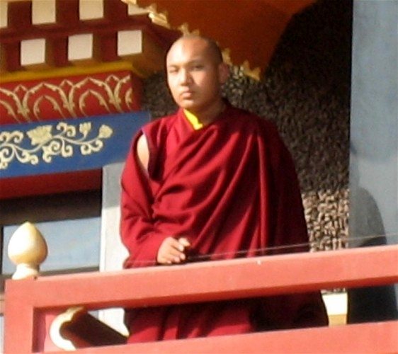 The 17th Karmapa. He happened to be at the Tibetan Vajra Vidya monastery in Sarnath on the day we visited. We joined a procession of devotees and he handed each of us a piece of red string he had blessed. Later, he came out onto the veranda and I got this picture of him using the zoom lens while he was looking directly at me.